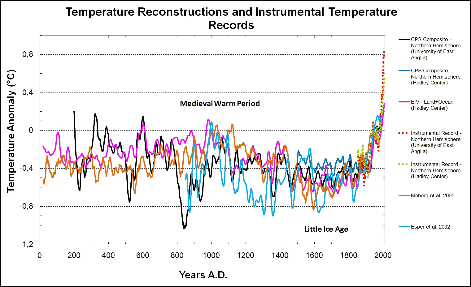 Global and hemispheric surface temperature reconstructions for the past two millennia, plus the instrumental data. Graph following Figure 3 in "Michael E. Mann, Zhihua Zhang, Malcolm K. Hughes, Raymond S. Bradley, Sonya K. Miller, Scott Rutherford, and Fenbiao Ni (2008): Proxy-based reconstructions of hemispheric and global surface temperature variations over the past two millennia. Proceedings of the National Academy of Sciences Vol. 105, No. 36, pp. 13252-13257, September 9, 2008. The Graph was made with Excel using 20 yr running means for the paleoreconstructions and 5 yr running means for the instrumental records. See the under "Source" listed Websites for the original data.